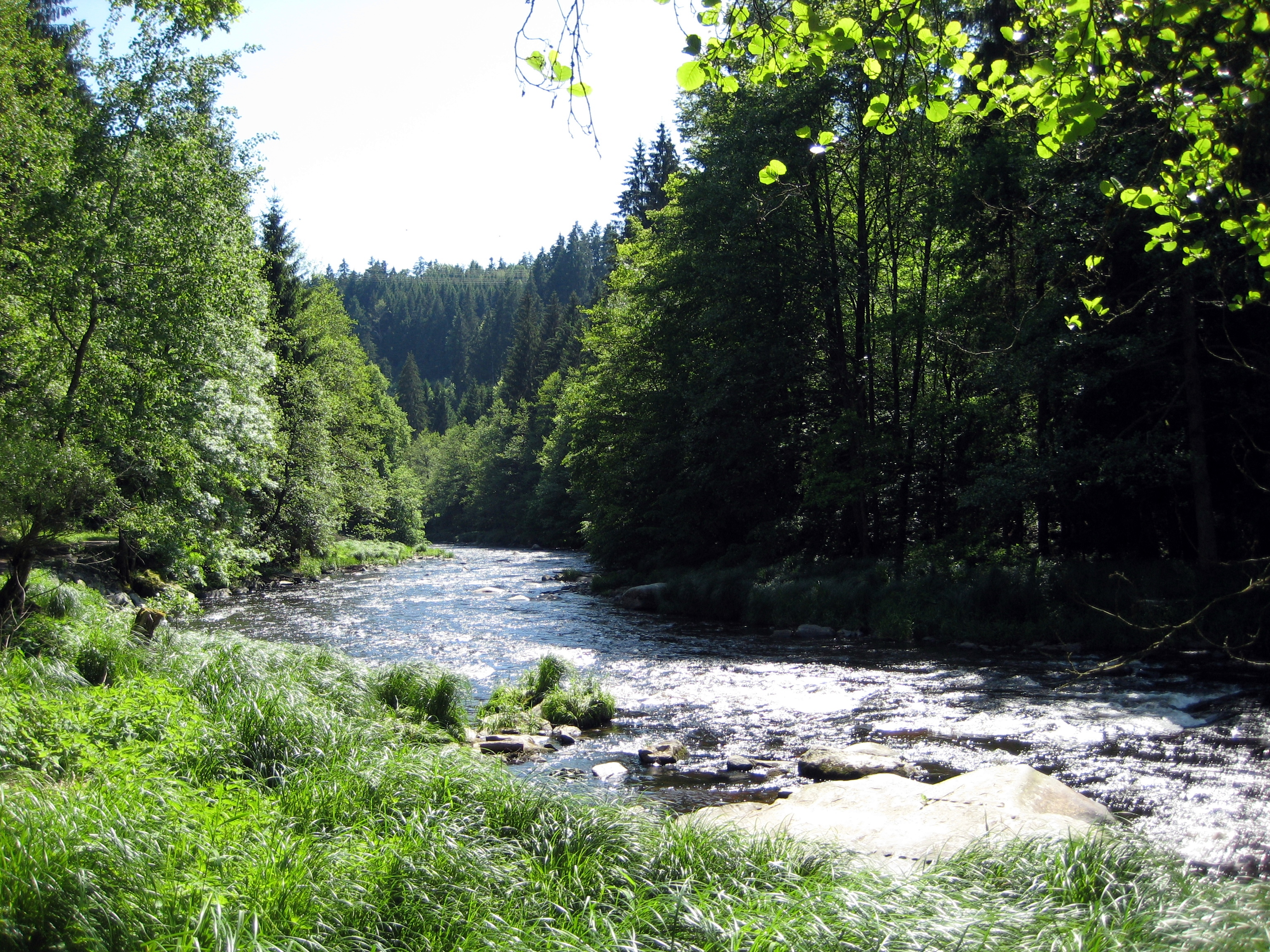 The Ilz north of Fürsteneck